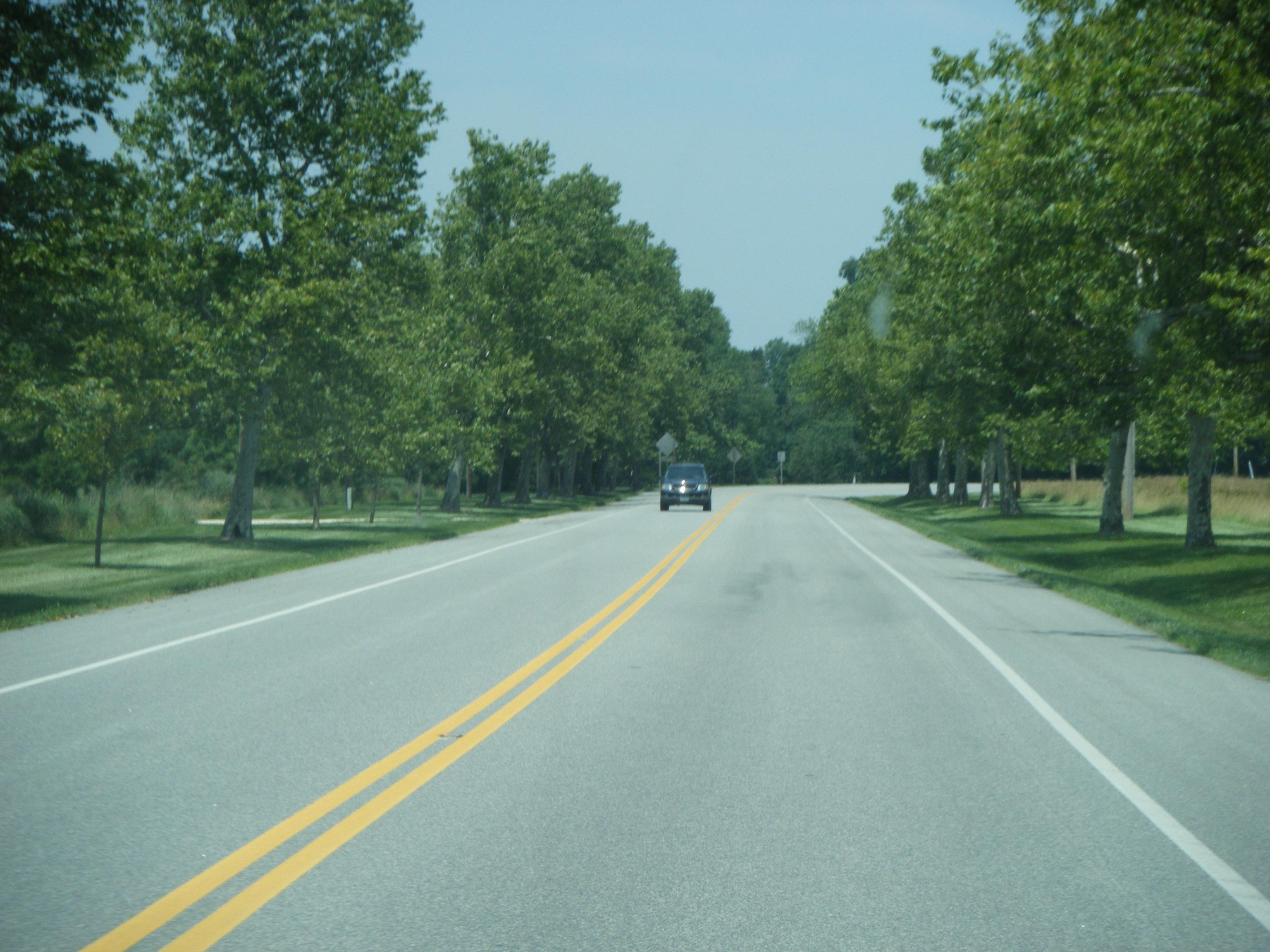 Northbound Maryland Route 333 past intersection with Spring Road near Easton, Maryland